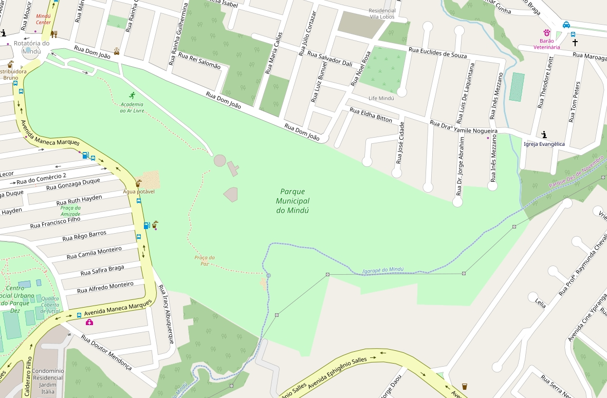 Map of Mindu Park, Manaus, Brazil.